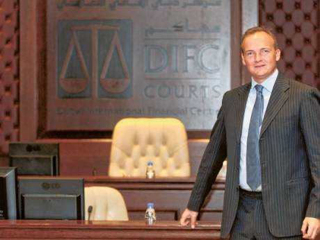 Mark Beer in the DIFC's Main Courtroom